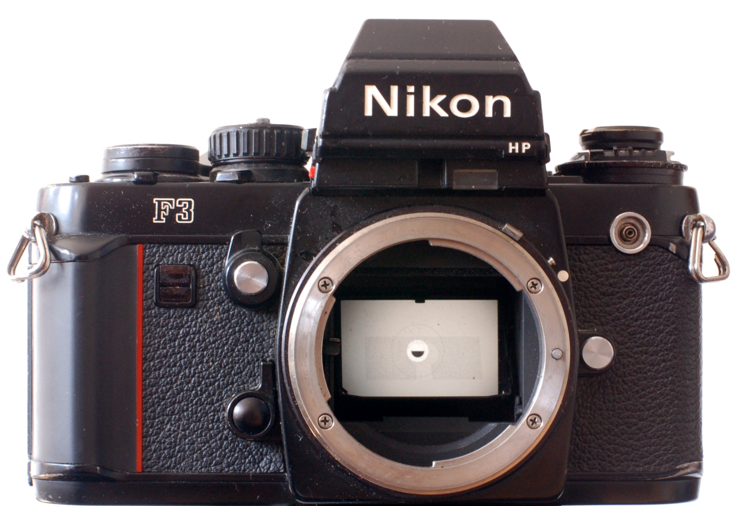 Nikon F3, professional SLR of the 1980s